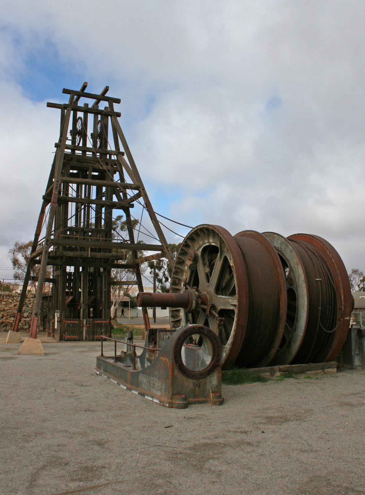 Kintore Headframe in Blende St, Broken Hill, NSW. This headframe was originally located at the Kintore Shaft, the principal shaft of the Central Mine, and prior to that at the No. 5 shaft at the South Mine. It was moved to this site in 1984 to allow open-cut mining of the original site. It is constructed of oregon, supported on concrete footings, and cross-braced with steel rods. The double cylindrical winding drums are 3m (10 feet) in diameter and operated at 86rpm using 35mm wire rope with a breaking strain of 74 tons. The drums have grooves in the surface to ensure correct coiling of the rope and protect against crushing. The drums could be braked and operated independently.